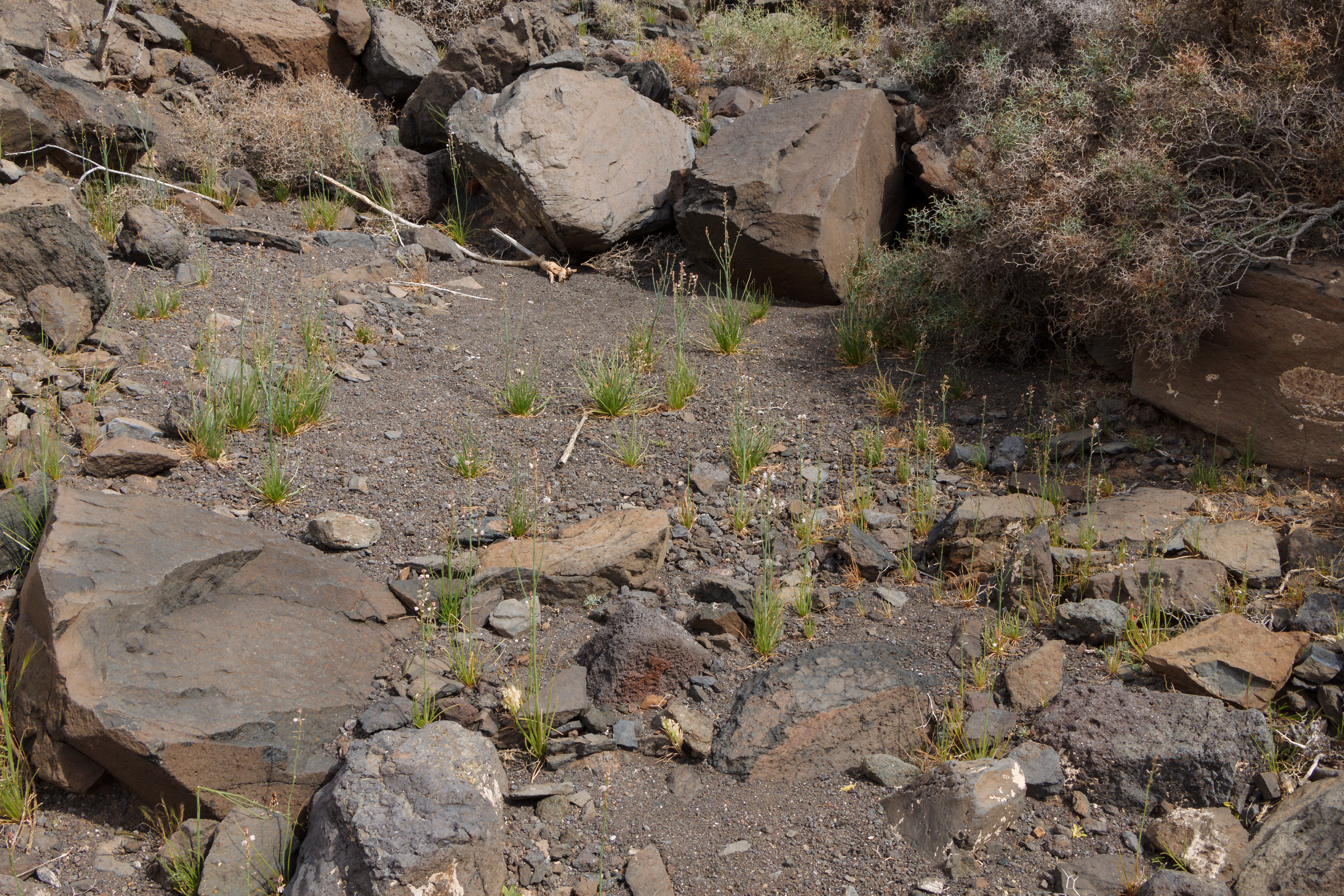 Asphodelus tenuifolius Cav., natural stand; Gran Valle, Jandía, Fuerteventura, Canary Islands, Spain.